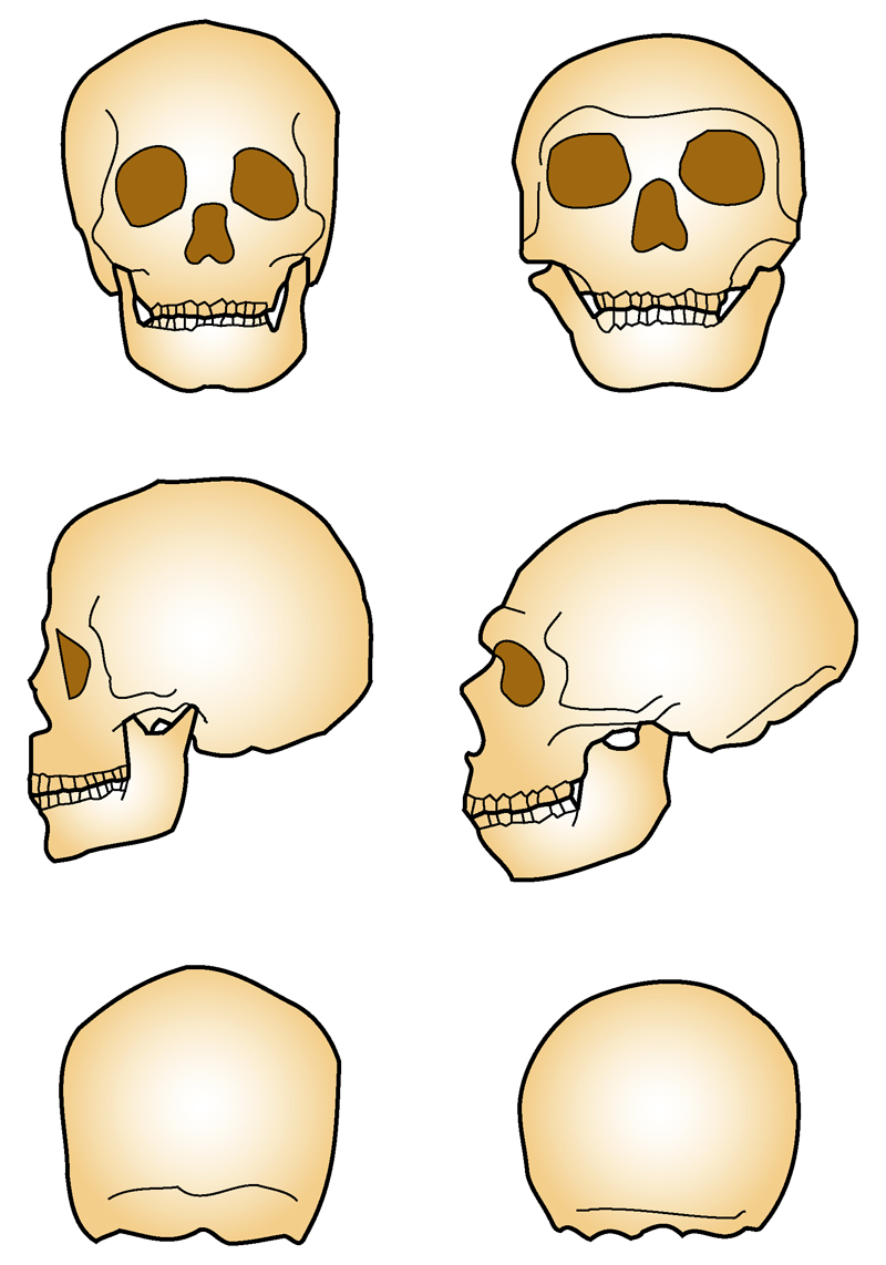 comparaison des crânes d'Homo sapiens (gauche) et Homo neanderthalensis (droite) - DAO Vincent Mourre 2006 comparison of Homo sapiens (left) and Homo neanderthalensis (right) skulls